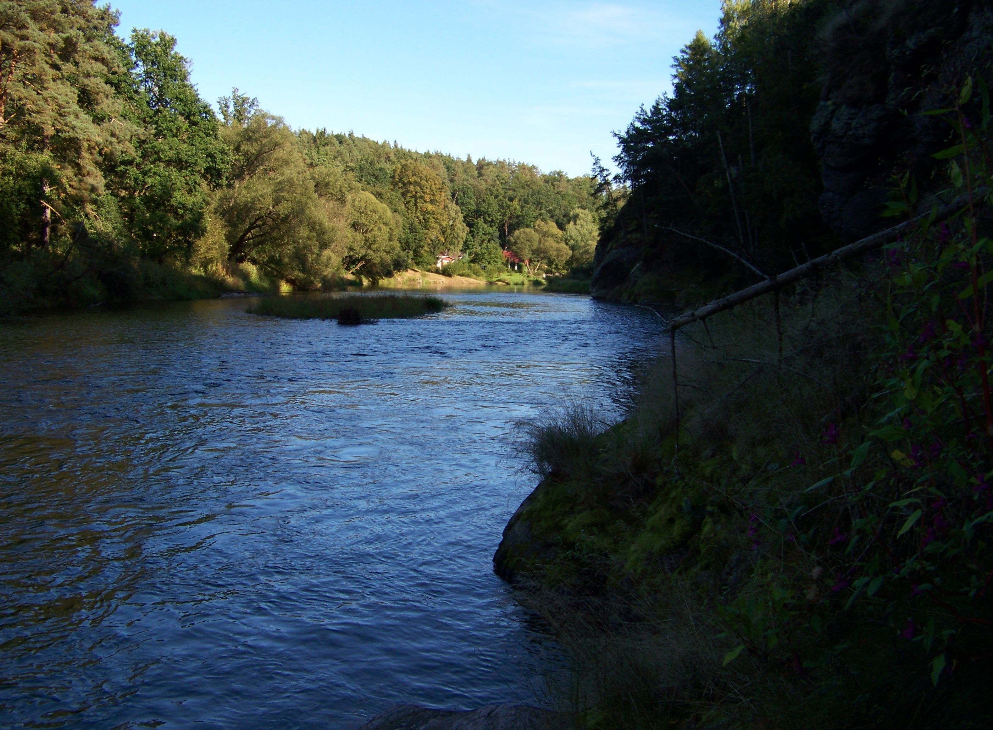 Bechyně-Lišky and Černýšovice-Hutě, Tábor District, South Bohemian Region, the Czech Republic. Lužnice river.